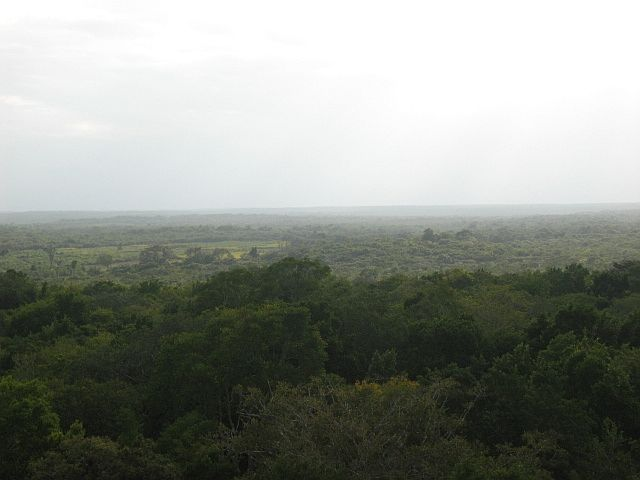 Rainforest in Campeche, Mexico near Becán